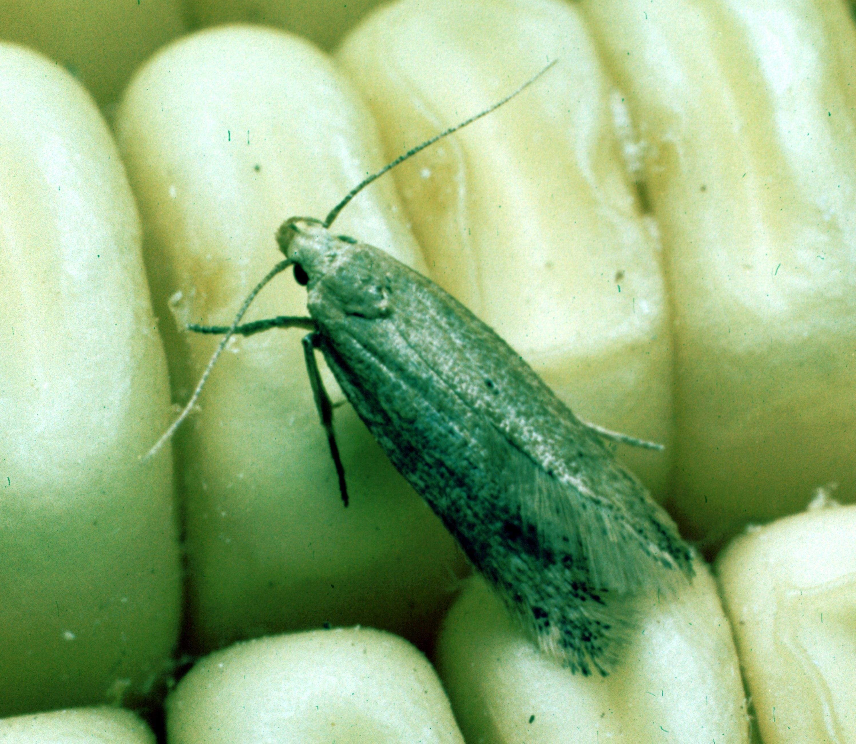 Sitotroga cerealella adult on corn, USA